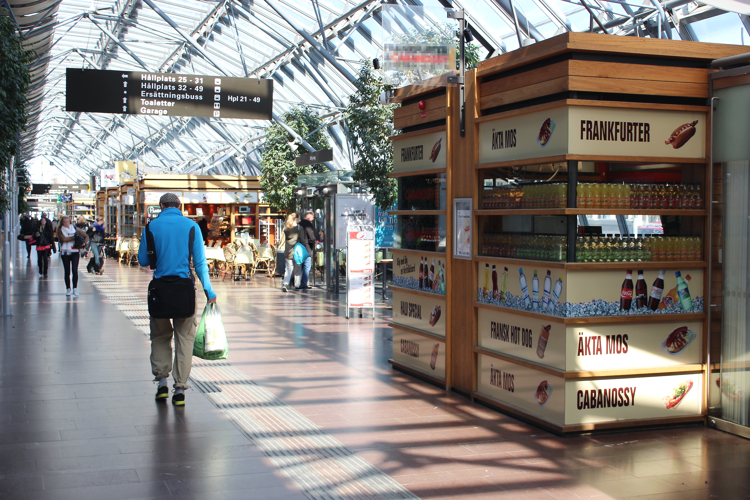 Nils Ericson Terminal